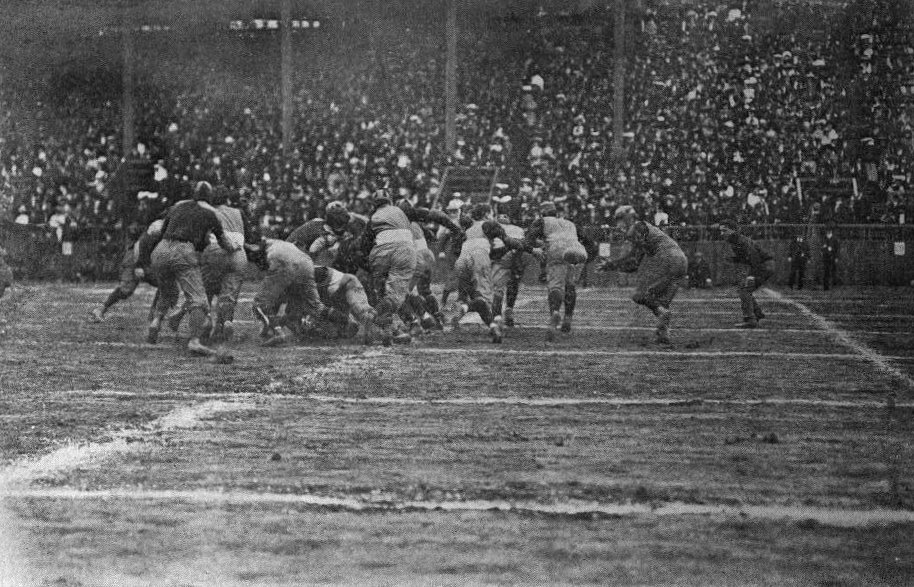 Stanford on the Offense, California on the Defense - San Francisco, California